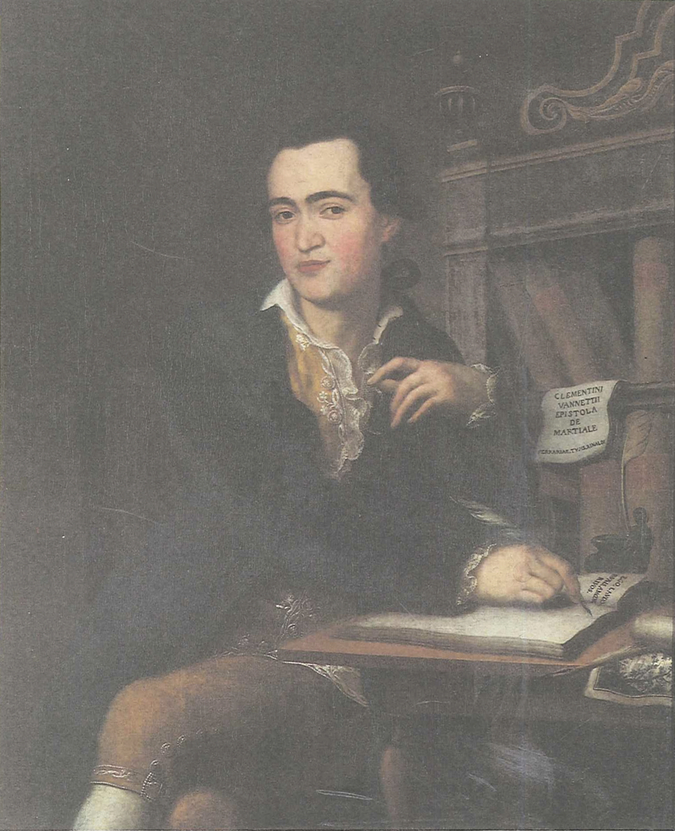 Portrait of Clementino Vannetti